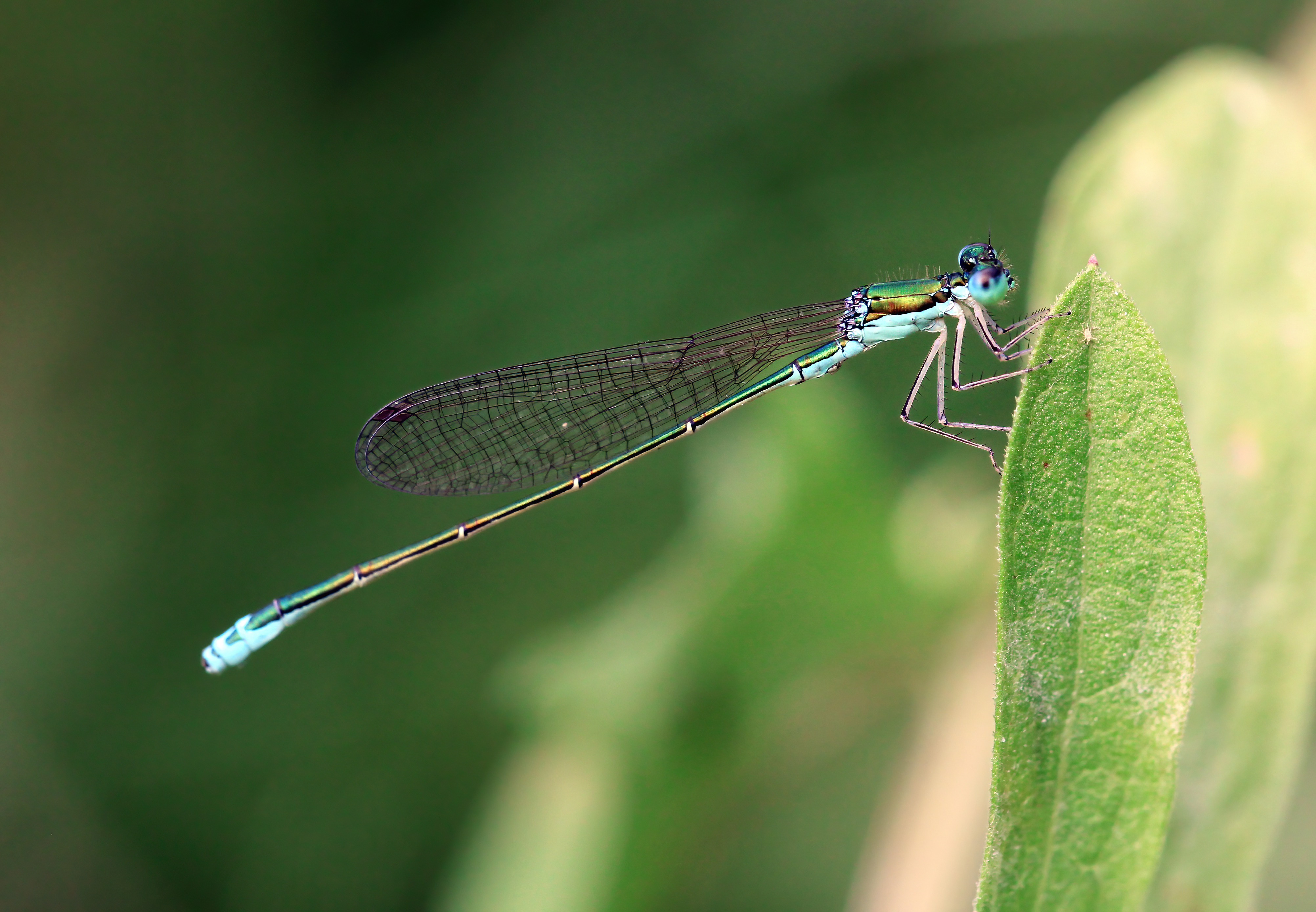 Nehalennia irene